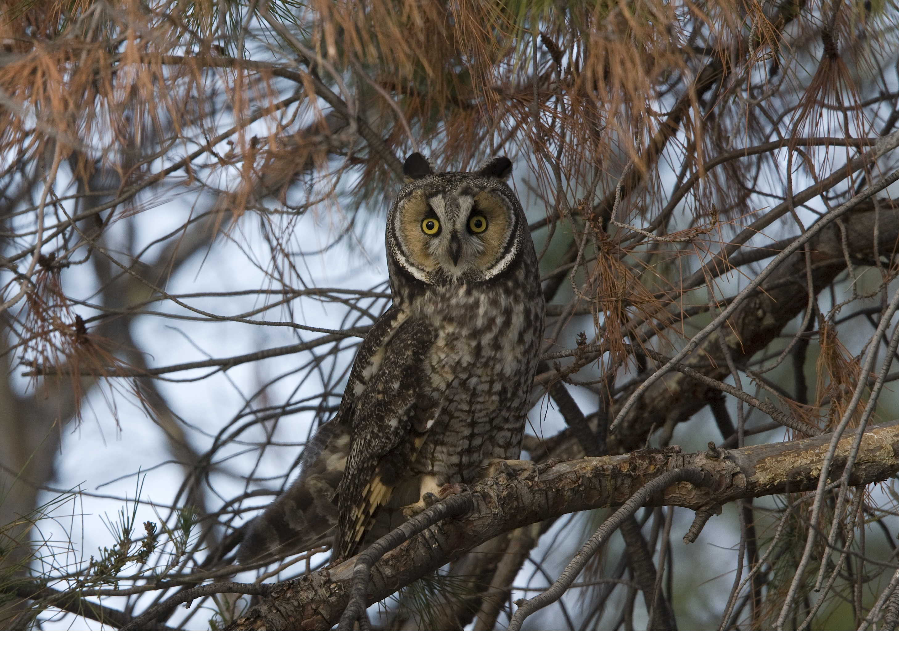 Long-eared Owl in San Luis Obispo County, California, USA.